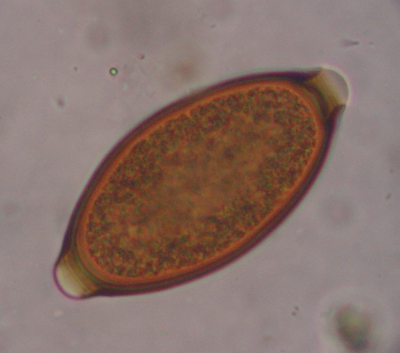 Egg from Trichuris vulpis (canine whipworm) seen through a microscope at 400x. The egg is operculated at both ends.